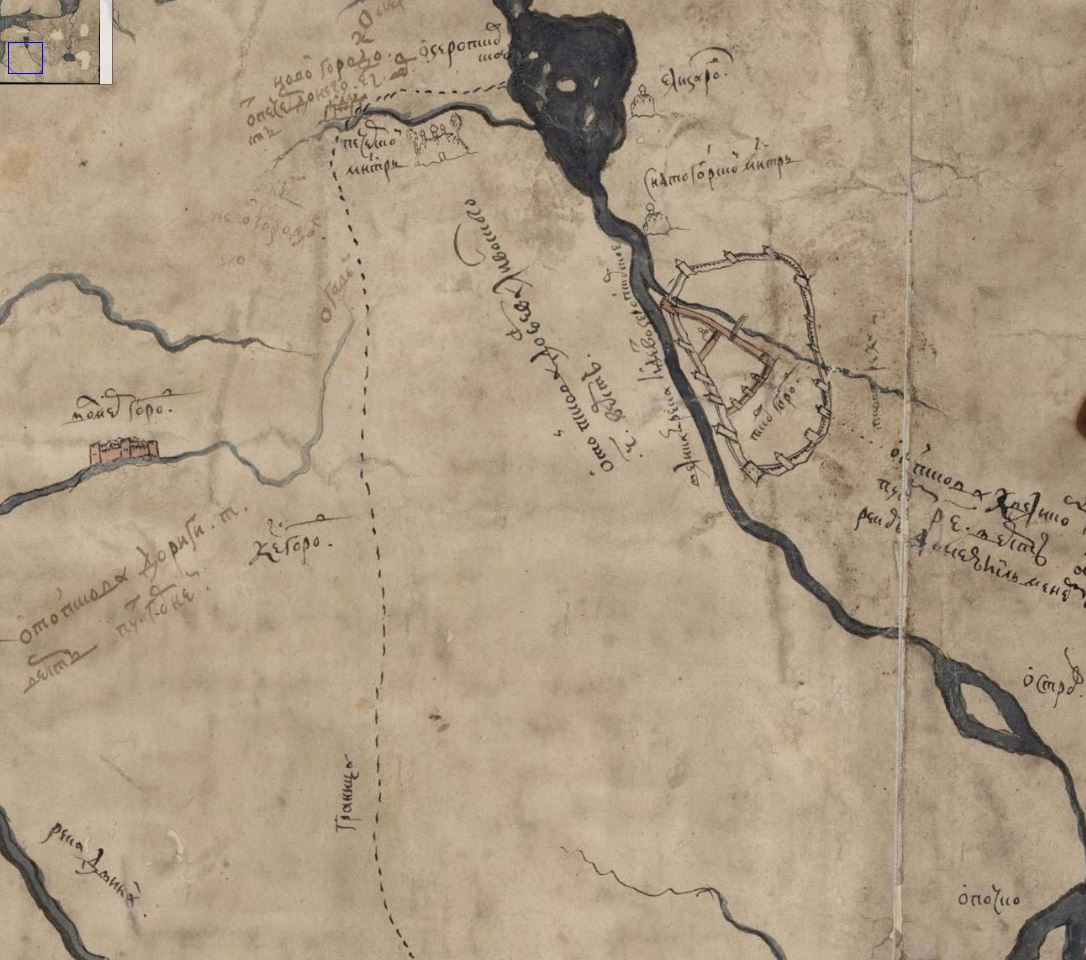 Drawing of Russian and Swedish towns (extract)